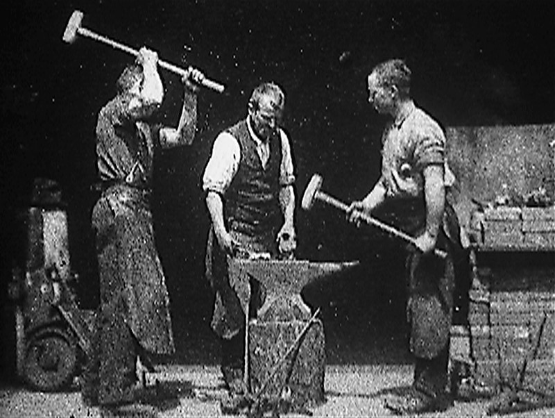 image from Blacksmith Scene (1893), produced by Thomas Edison, directed by William Kennedy Laurie Dickson, shot by William Heise; the first film ever publicly exhibited on the completed version of the Edison-Dickson Kinetoscope